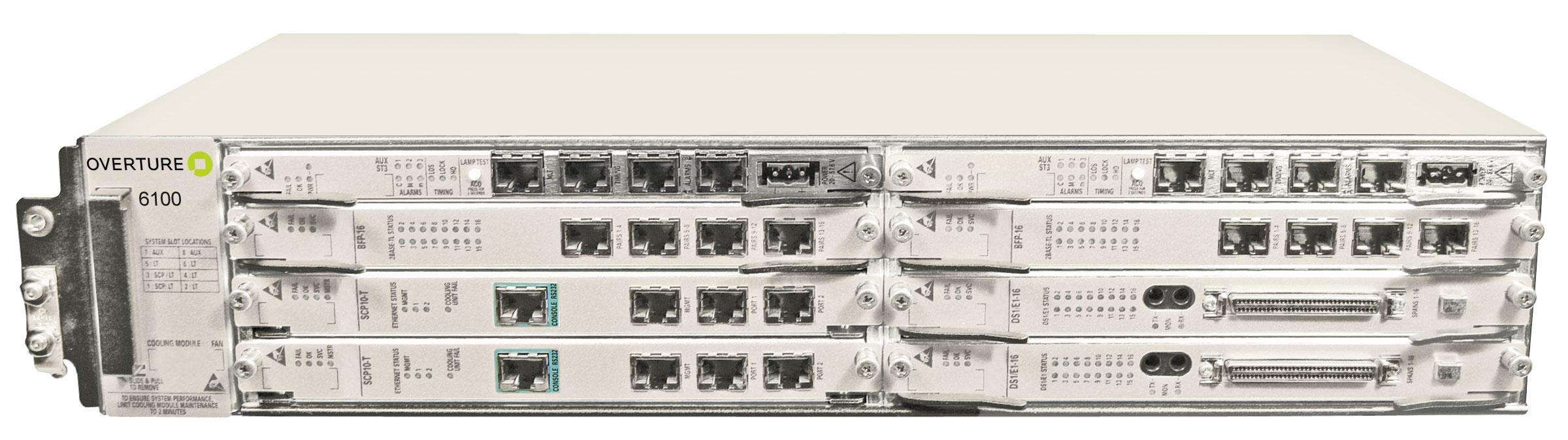 Product photo of the Overture 6100 Multiservice Ethernet Aggregation Device, used with permission from Overture Networks. Please